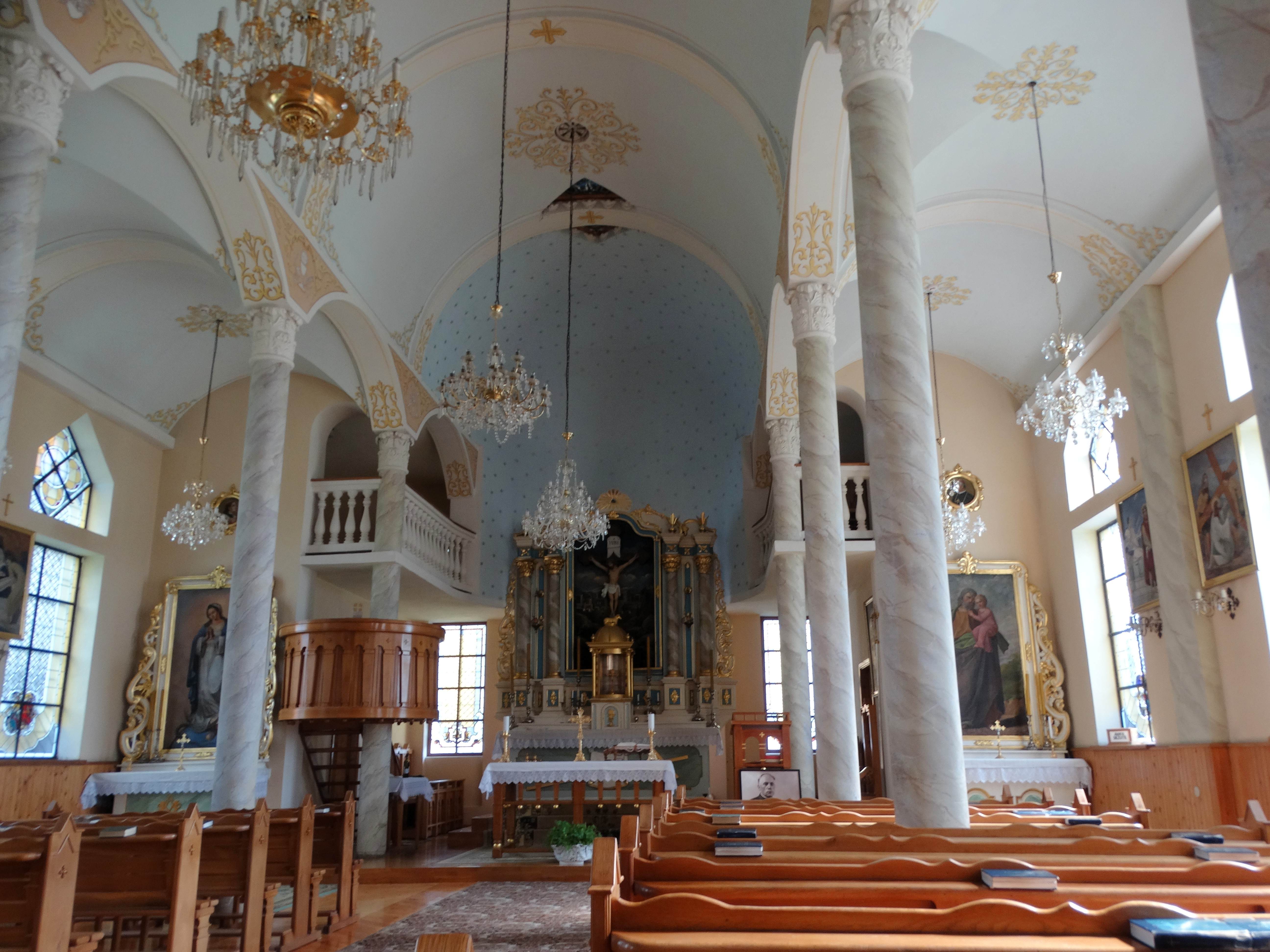 Catholic Church, interior, Panoteriai, Jonava district, Lithuania